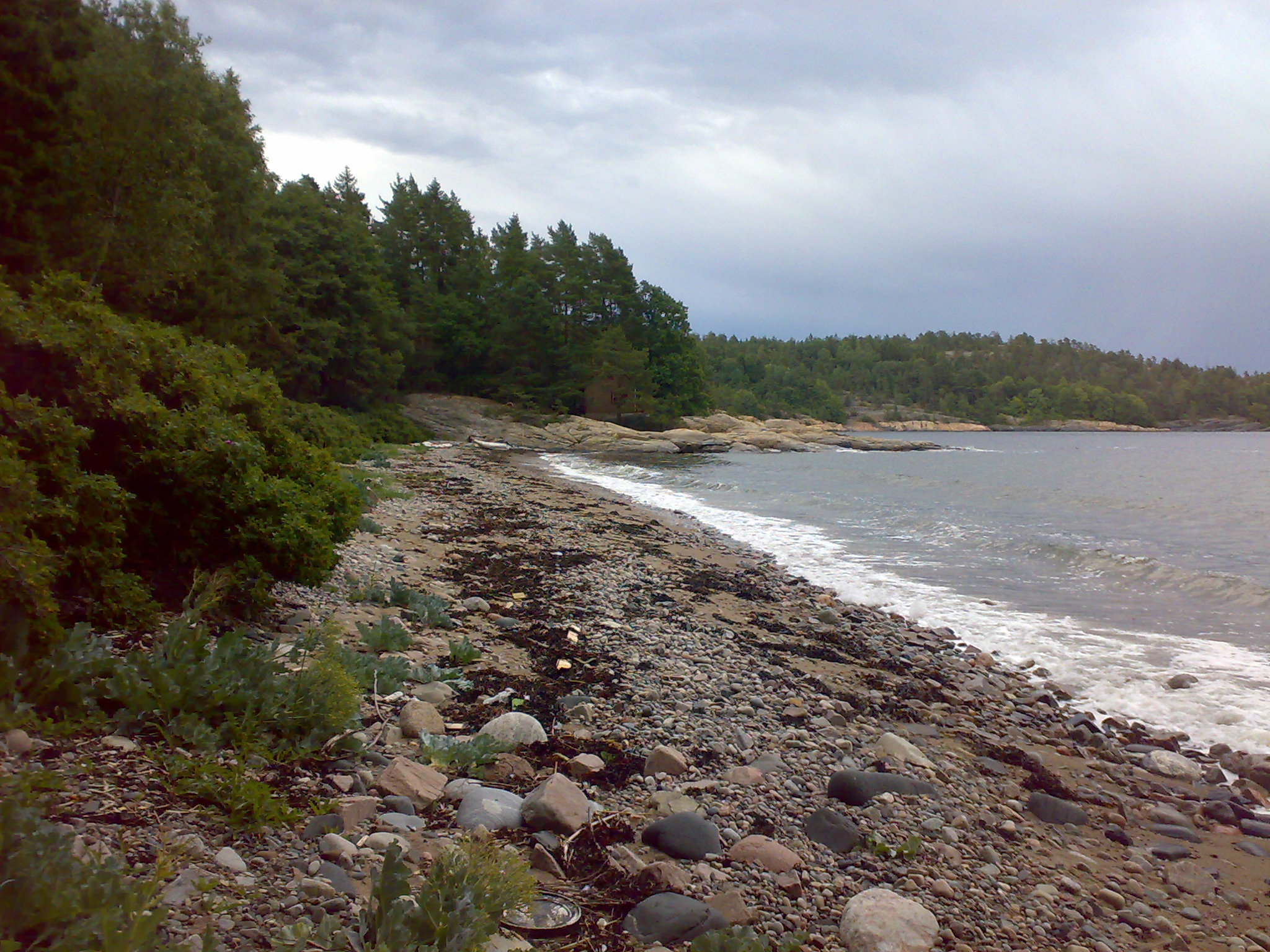 Sandbukta bay in Hurum, Norway, just west of Tofte